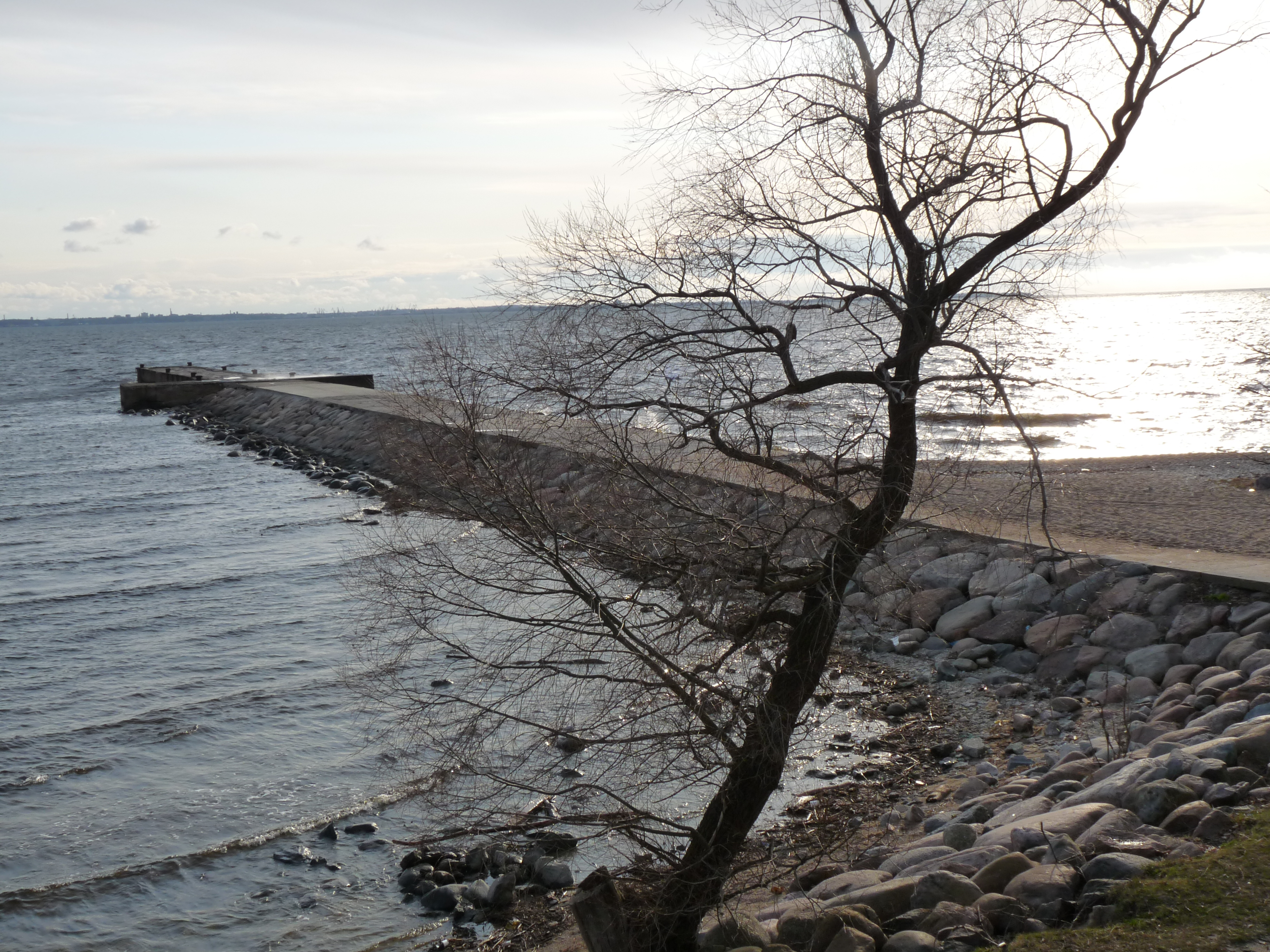 Quay in Merivälja